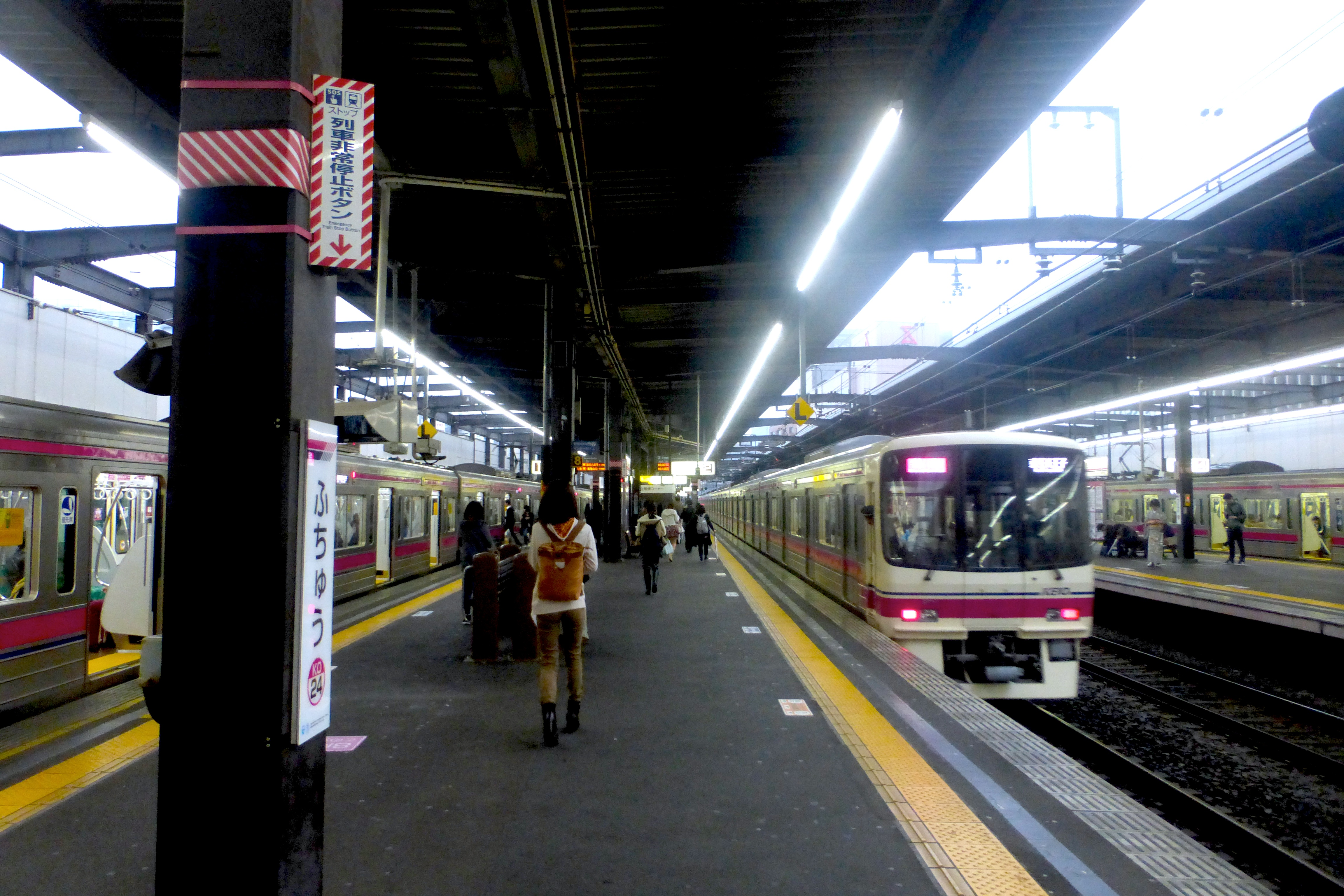 The platforms at Fuchu Station on the Keio Line